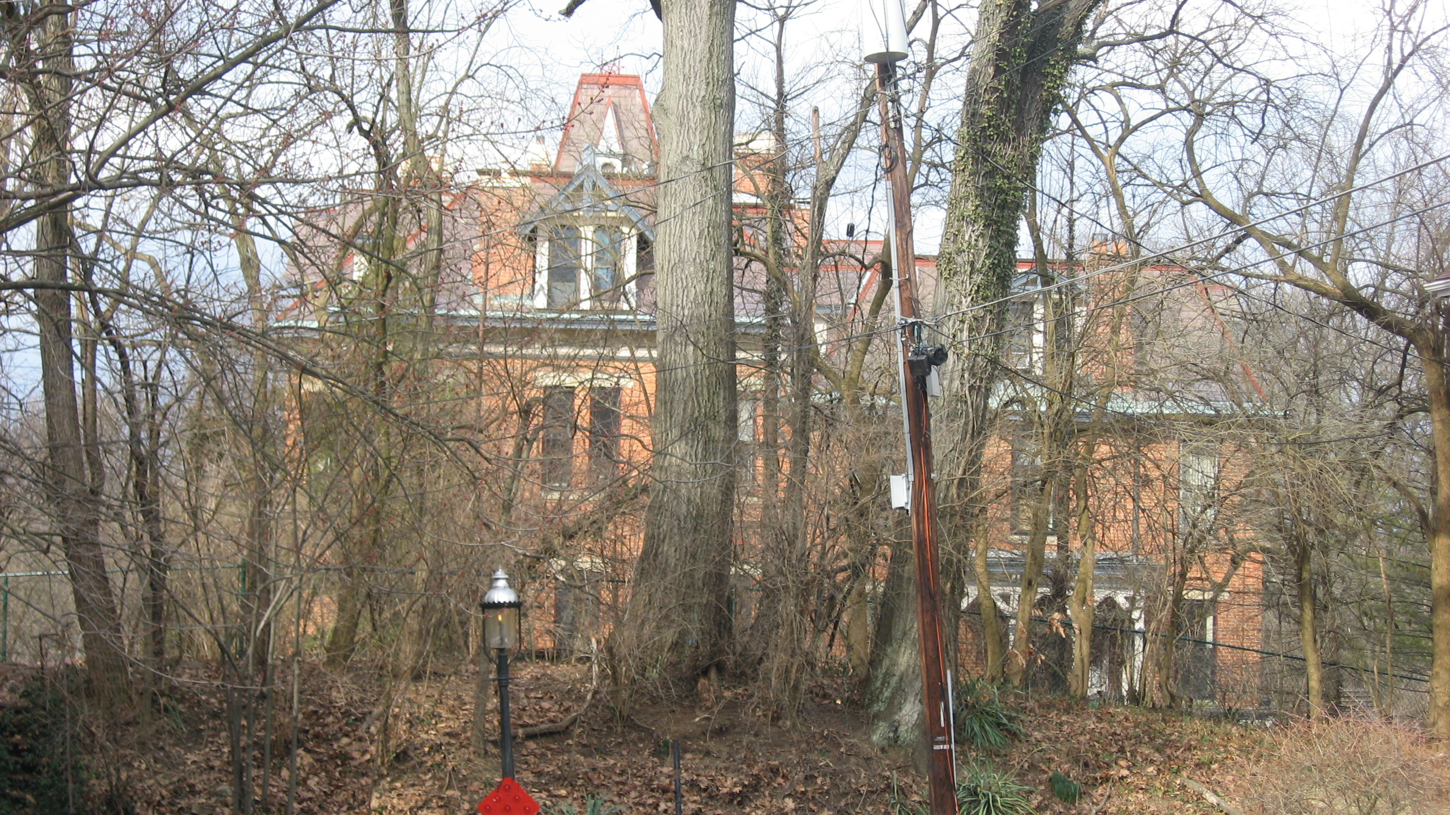 Eastern side of the Morrison House, located at 750 Ludlow Avenue in the Clifton neighborhood of Cincinnati, Ohio, United States. Built in 1873, it is listed on the National Register of Historic Places.